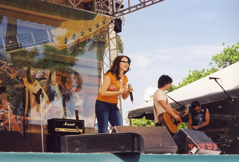 Tiffany performing at Gulfstream Park in 2003.